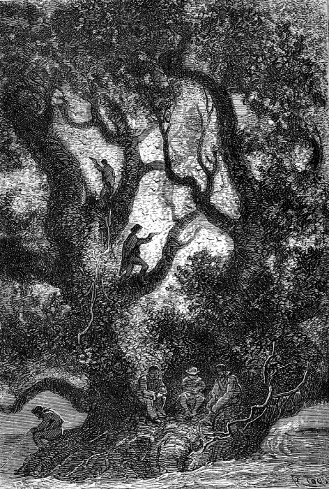 An ilustration from the novel "In Search of the Castaways; or Captain Grant's Children" by Jules Verne drawn by Édouard Riou.